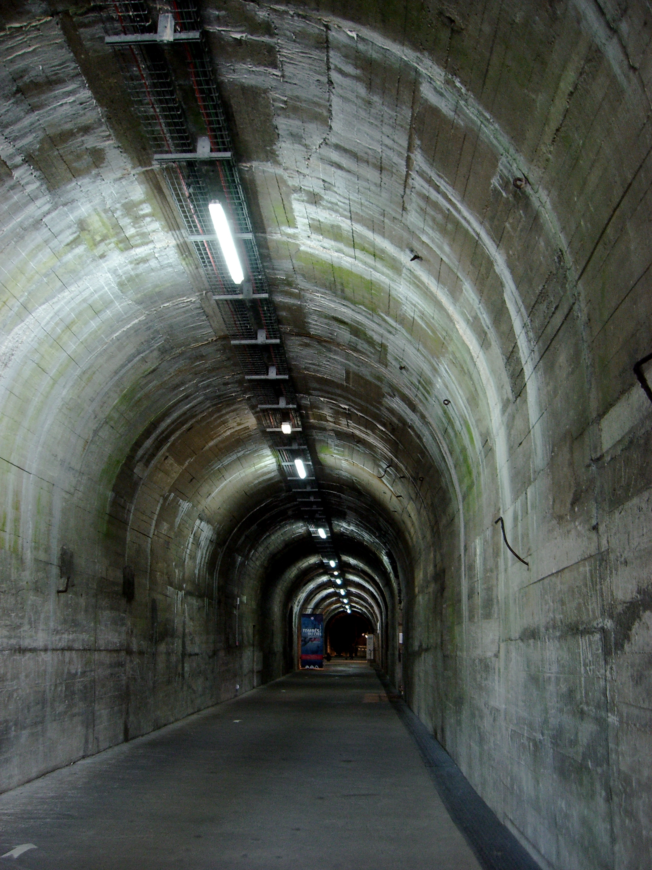 Photograph inside the 'Ida' railway tunnel, La Coupole. Designed to take the rockets by train into holding areas. One of 7km of tunnels inside the complex